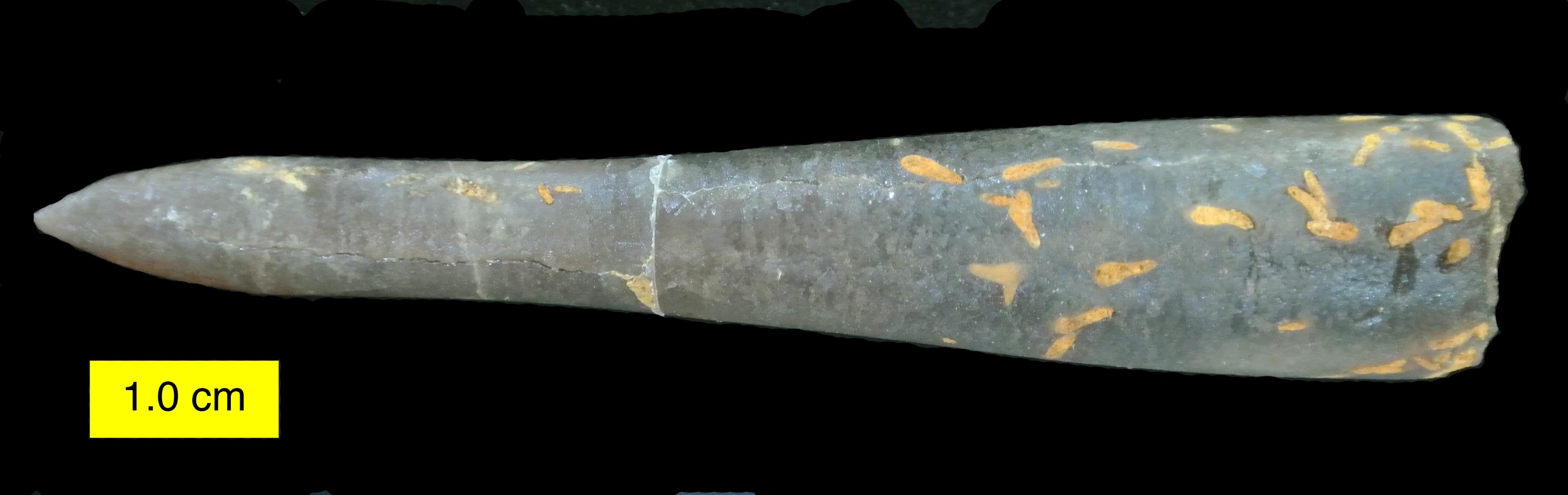 Hibolites hastatus from the Jurassic near Moneva Teruel, Spain. Note the barnacle borings (Rogerella).